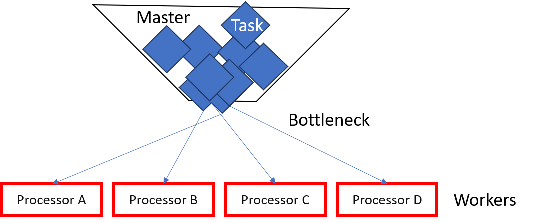 If tasks are small or if there are too many processors, the master slows the algorithm down, acting as a bottleneck.